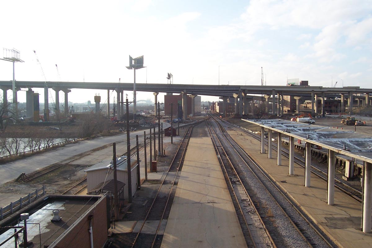 Copyright © 2006 Sulfur A view of the Menomonee Valley from the 6th Street Viaduct in Milwaukee, Wisconsin.